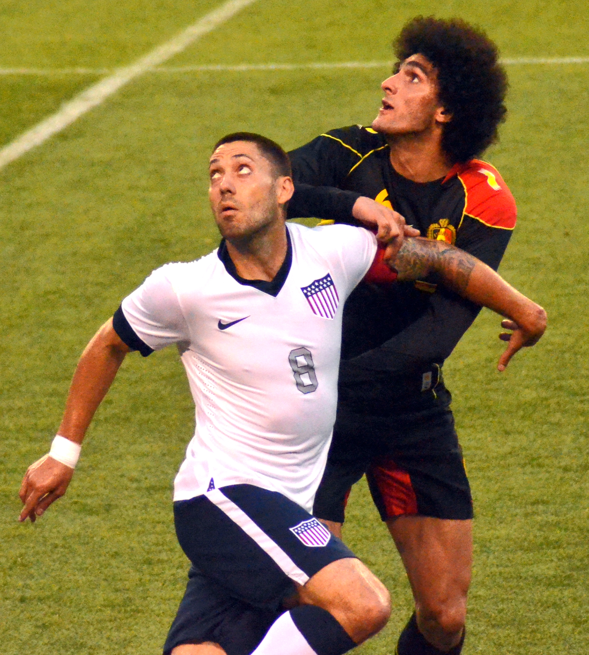 FirstEnergy Stadium Home of the Cleveland Browns